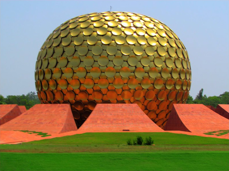 Matrimandir, Auroville, Pondicherry